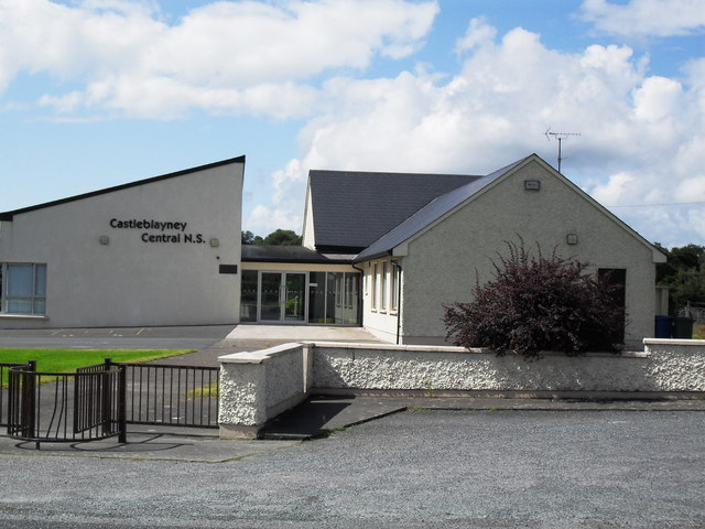 Castleblayney Central National School Hardly 'central' - it's 3/4 mile outside Blayney town on the road to Newtownhamilton.